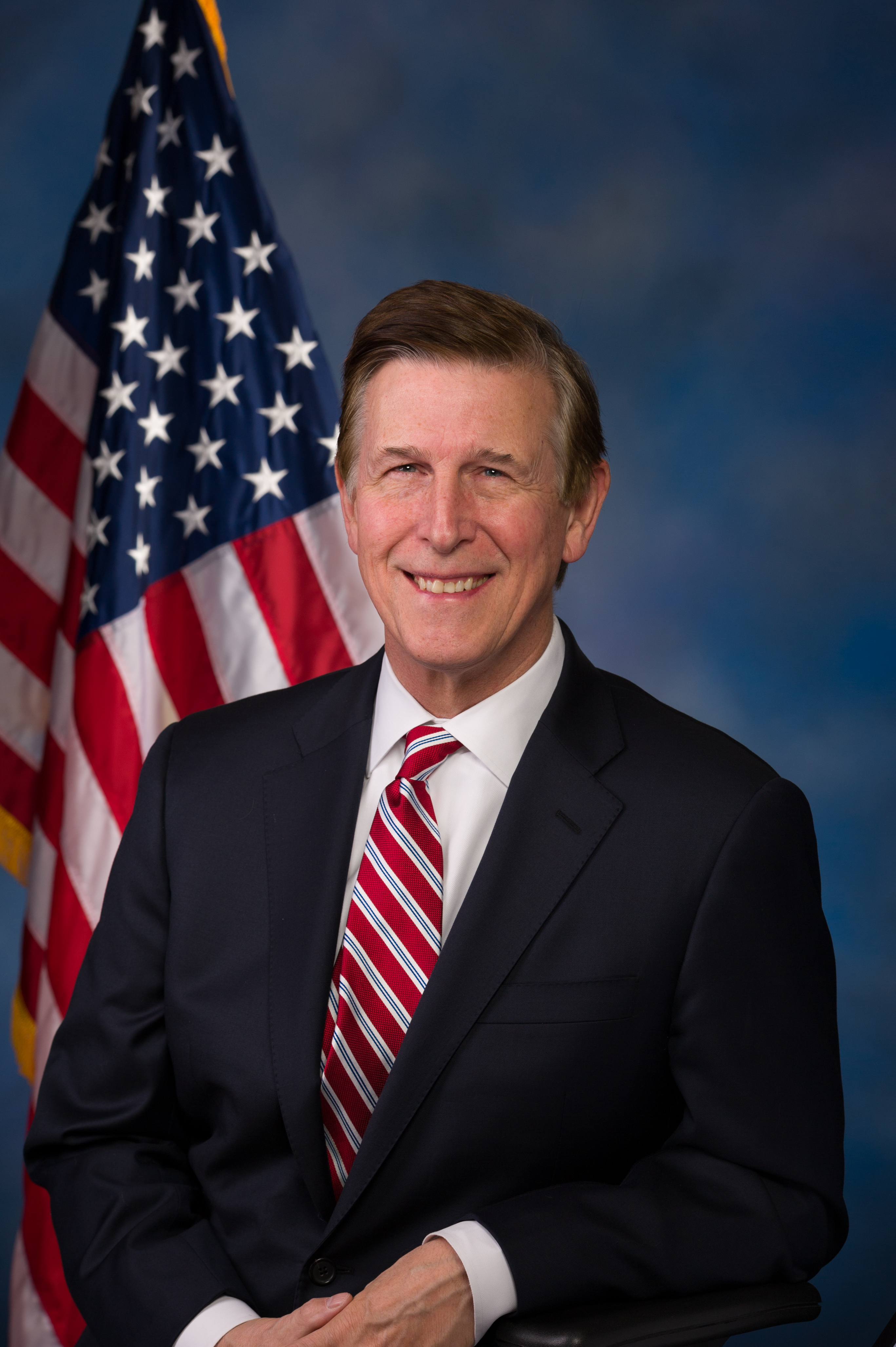 Don Beyer, member of the United States House of Representatives from Virginia's 8th congressional district since 2015.